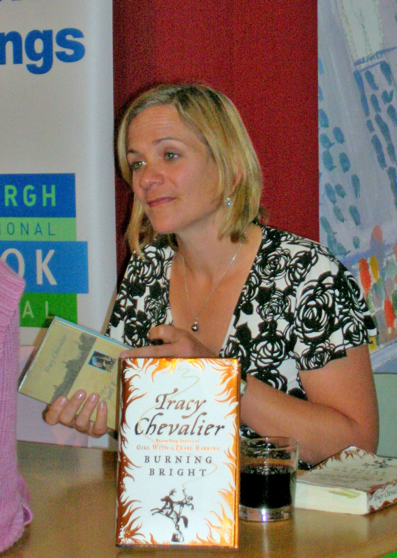 Tracy Chevalier signing books at the Edinburgh International Book Festival, 2007